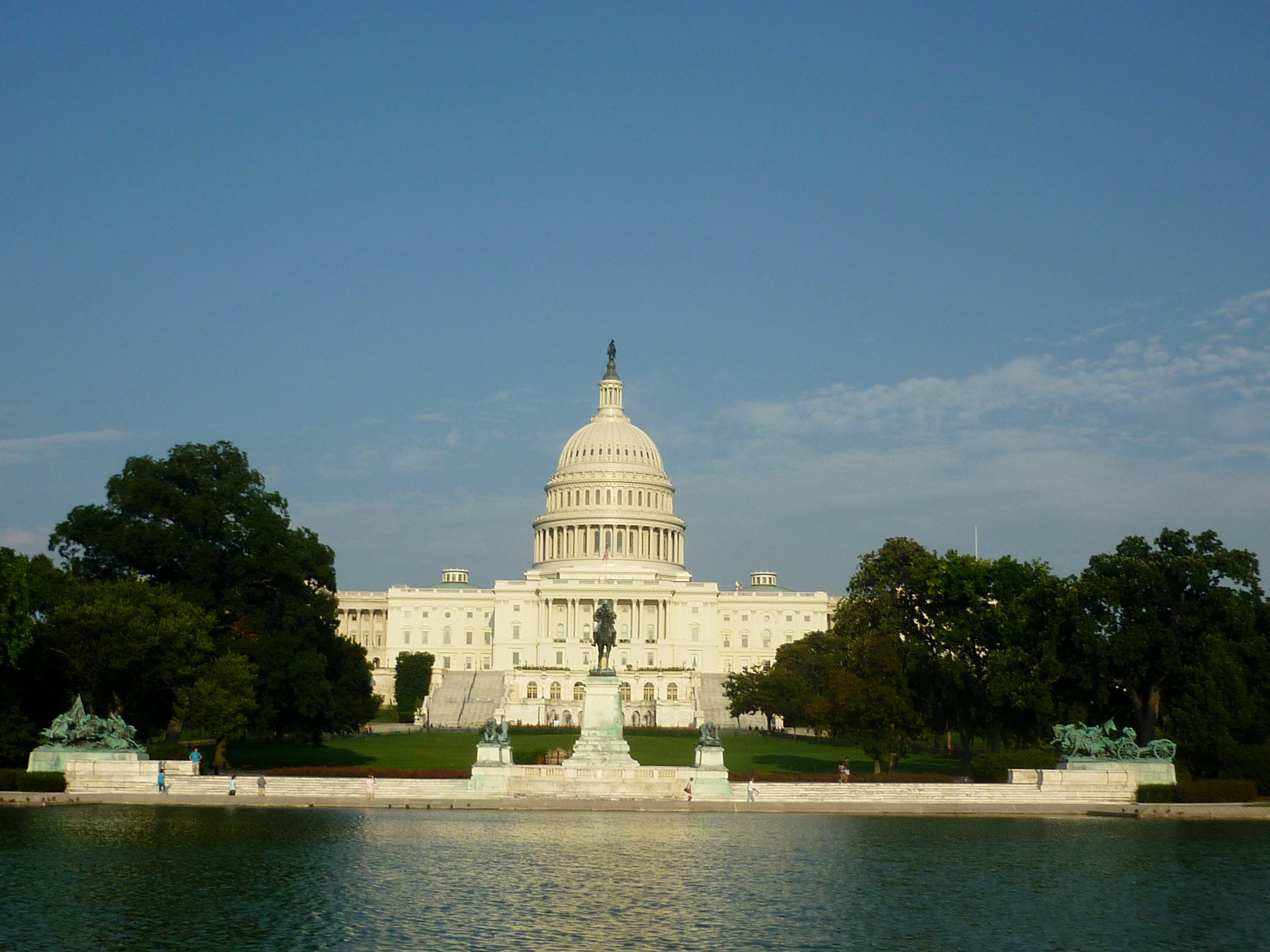 Capitol in Washington DC